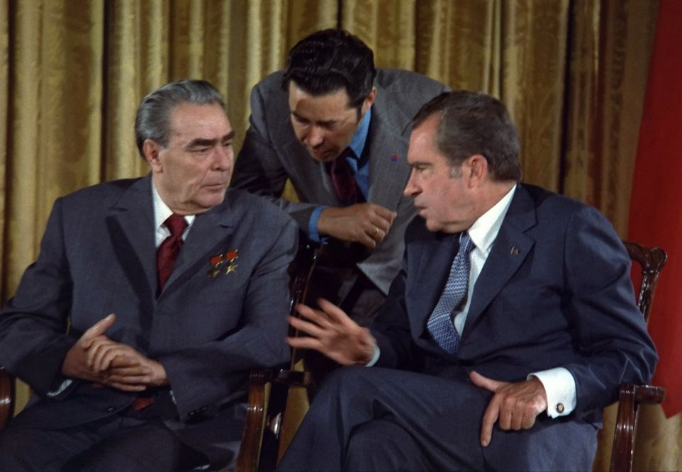 Richard Nixon meets Leonid Brezhnev June 19, 1973 during the Soviet Leader's visit to the U.S.